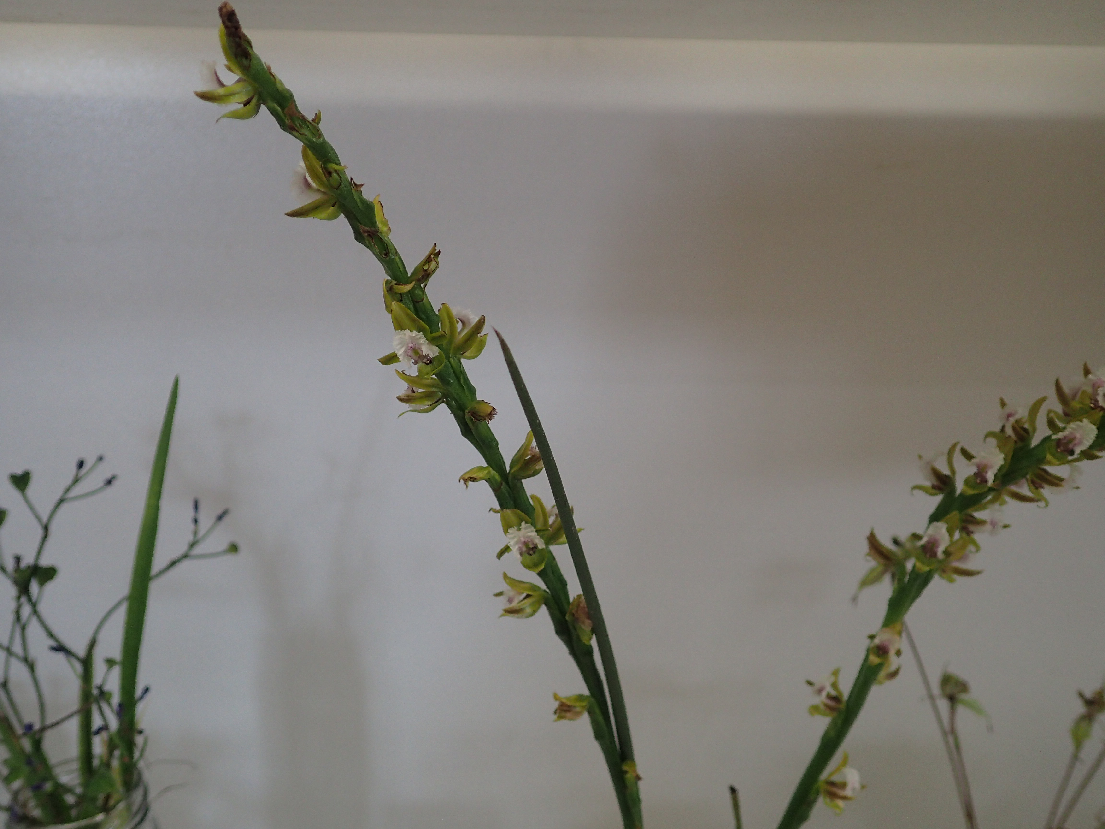 Prasophyllum fimbria at the Ravensthorpe Wildflower Show